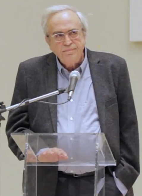 Greek philosopher of science and Syriza member Aristides Baltas